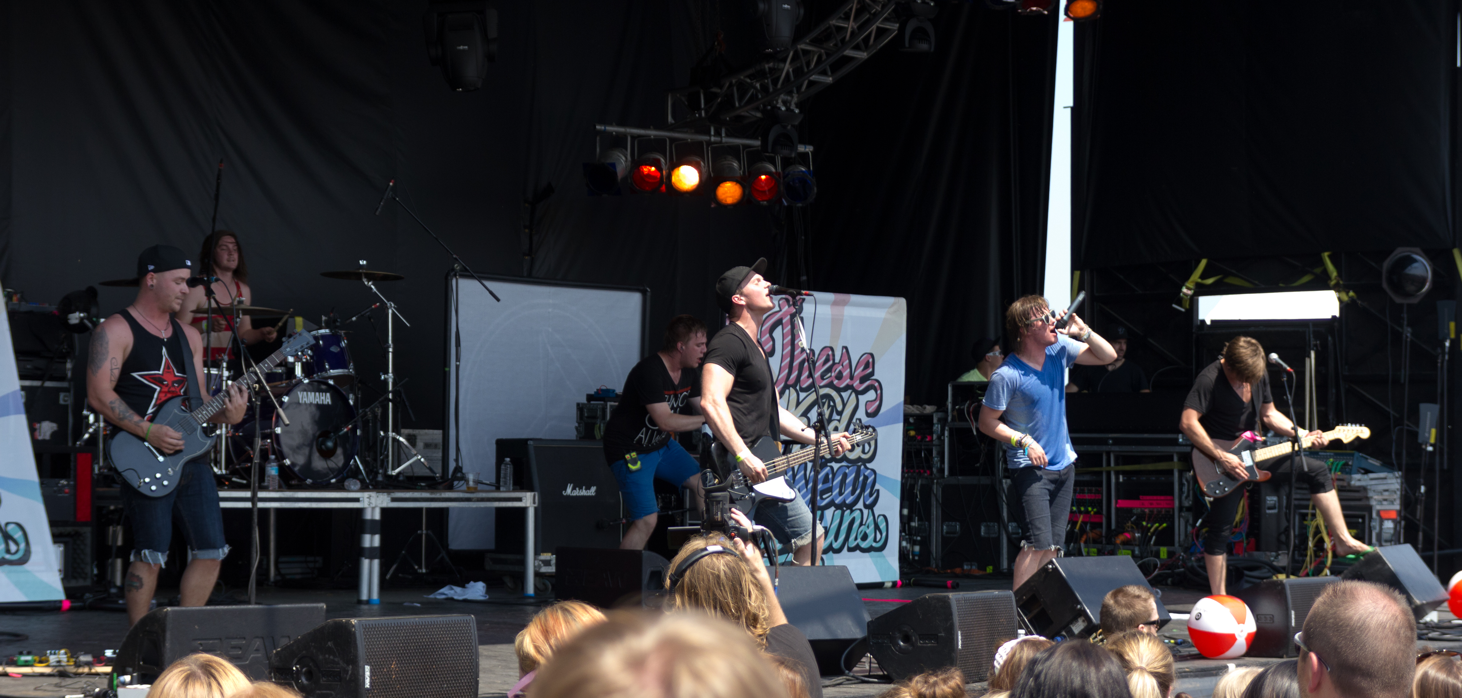 These Kids Wear Crowns at the Burlington Sound of Music festival